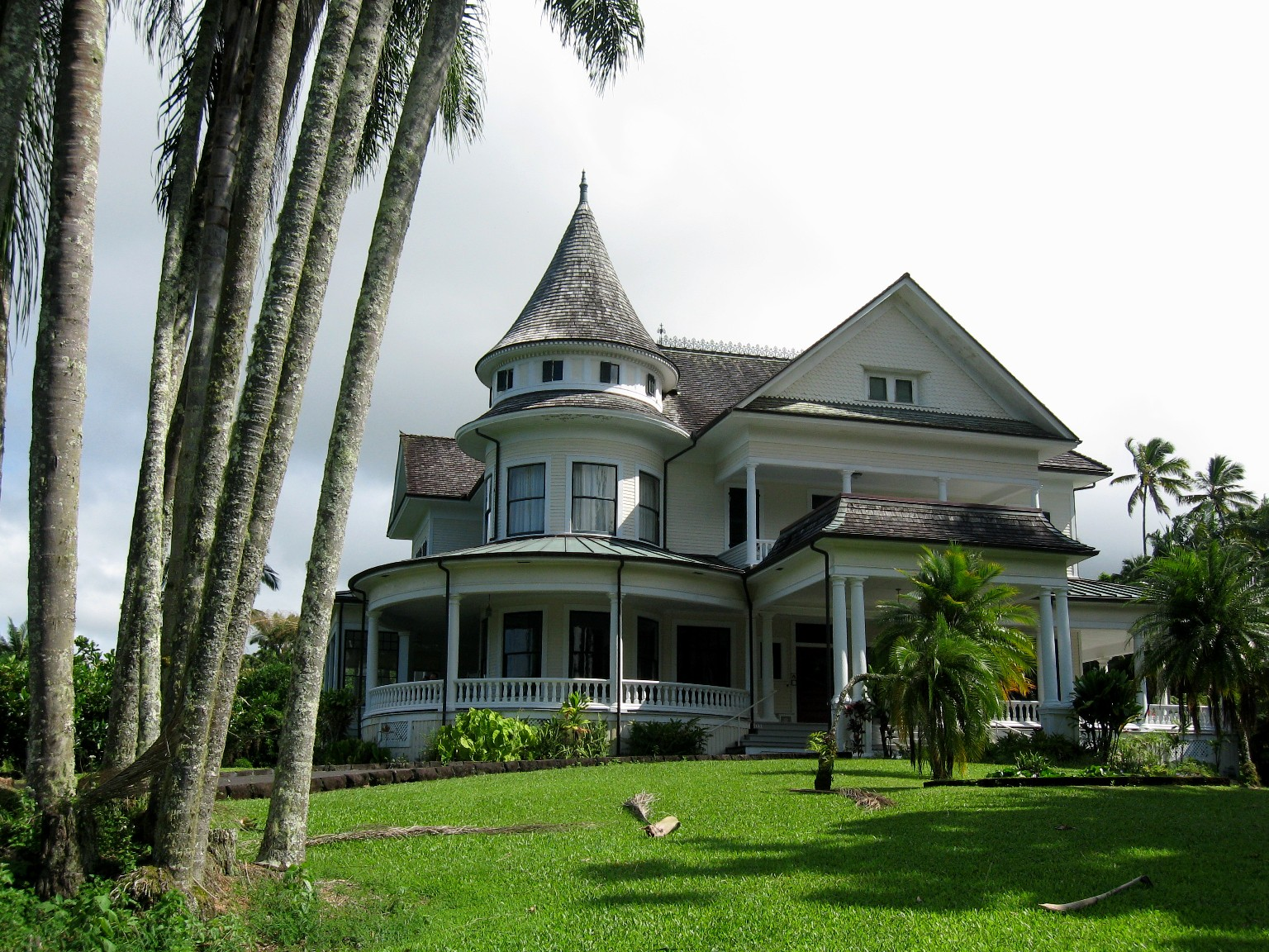 Listed on the National Register of Historic Places, this house was built in 1899 by J. R. Wilson, and bought in 1901 by William Herbet Shipman. It is still owned by a Shipman descendant, and run as a Bed and breakfast Hotel. Located in Hilo, Hawaii County, Hawaii.